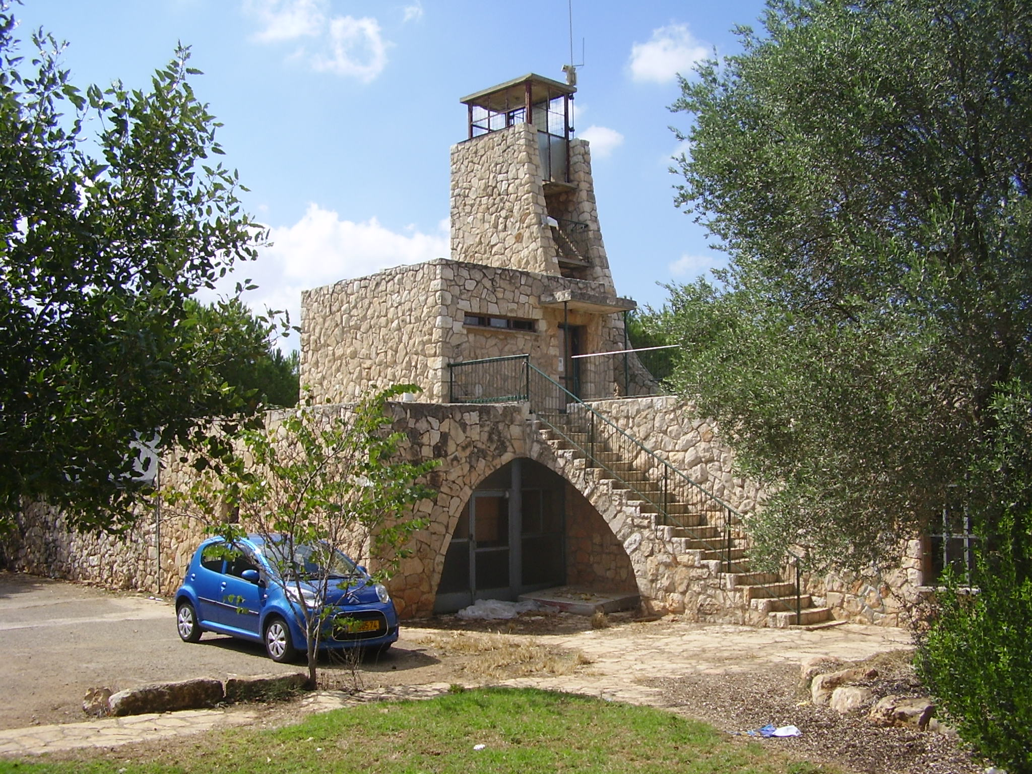 Yodfat Observatory in Yodfat